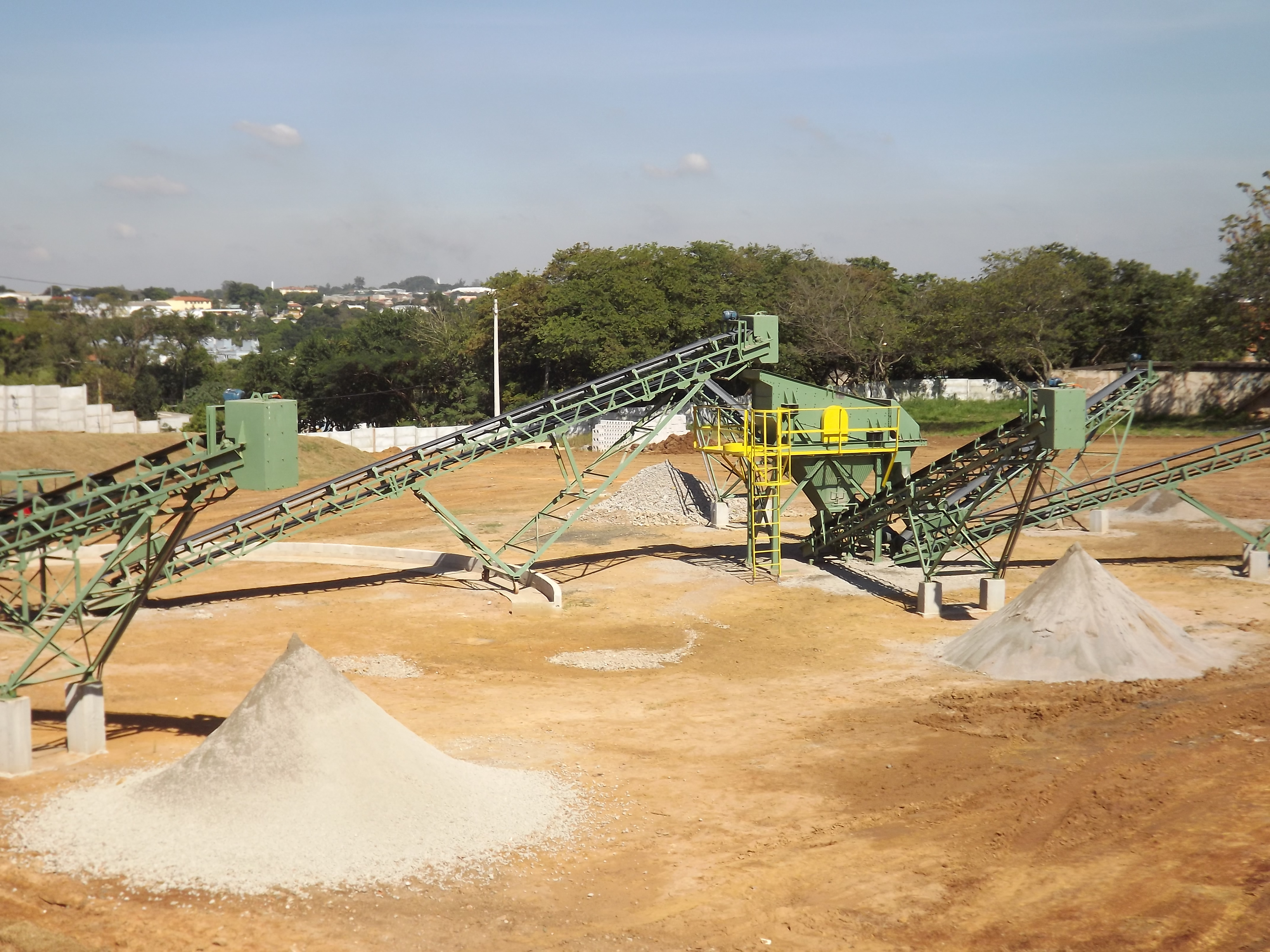 Recycling plant in Hortolândia, São Paulo, Brazil.